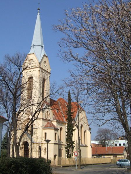 The reformed church in Békéscsaba